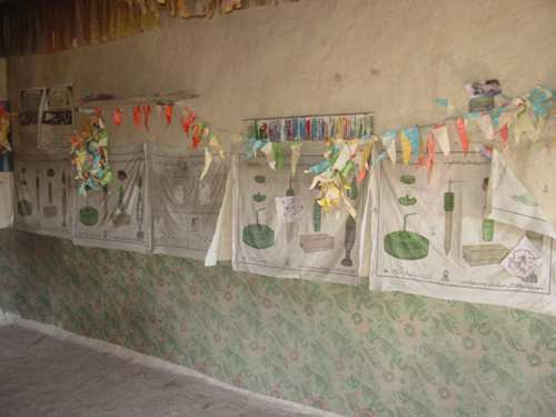 U.S. Navy SEALs found valuable intelligence information, including these mine recognition posters located in an Al Qaeda terrorist classroom in the Zawar Kili area of Afghanistan. In addition to detaining several suspected Al Qaeda and Taliban members, SEALs also found a large cache of munitions in numerous caves and above-ground structures. Photo by U.S. Navy